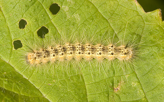 Hyphantria cunea. Great Smoky Mountains National Park, Swain County, North Carolina, USA.